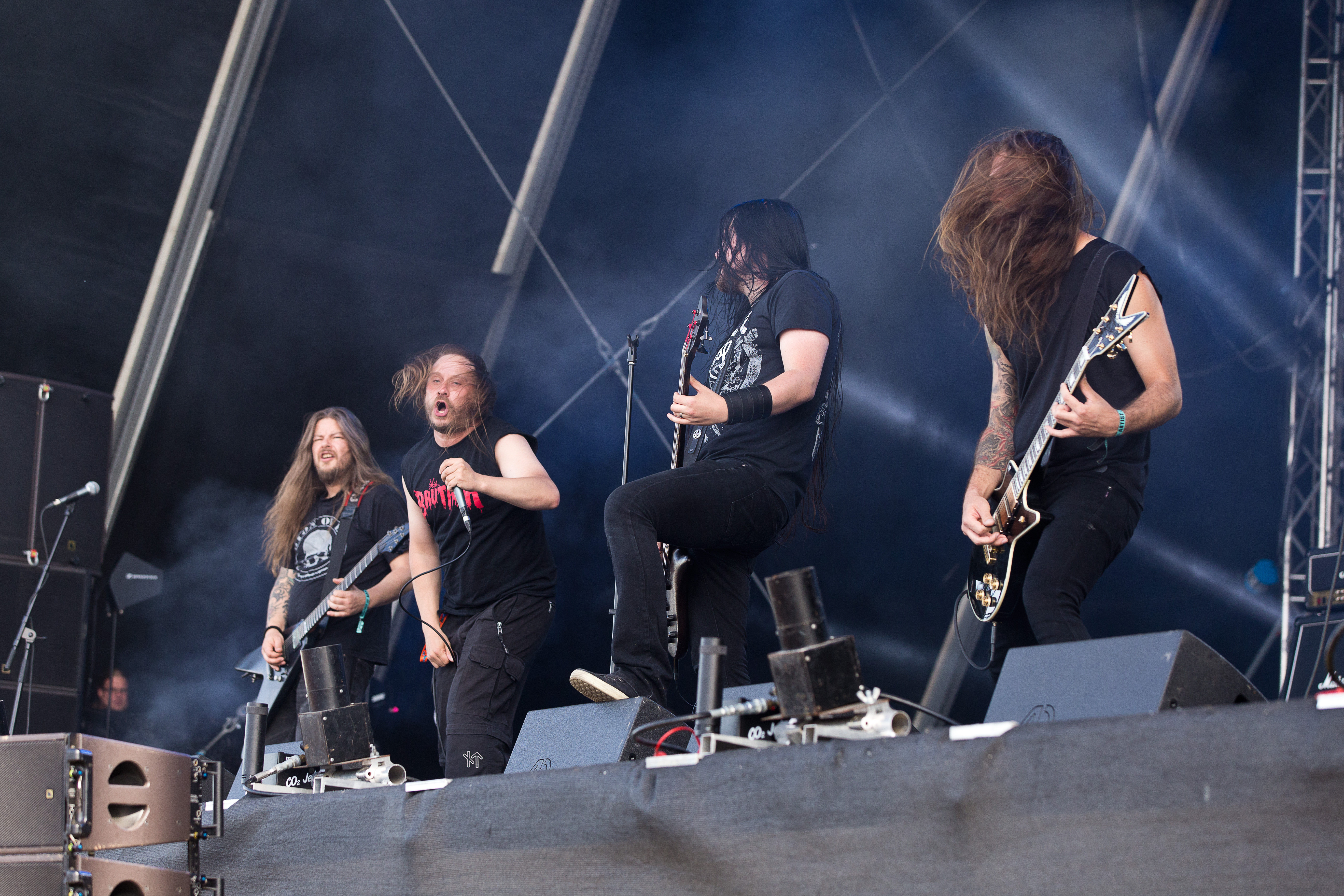 The Swedish death metal band Entombed A.D. at the Rockharz Open Air 2016 in Ballenstedt/Germany.